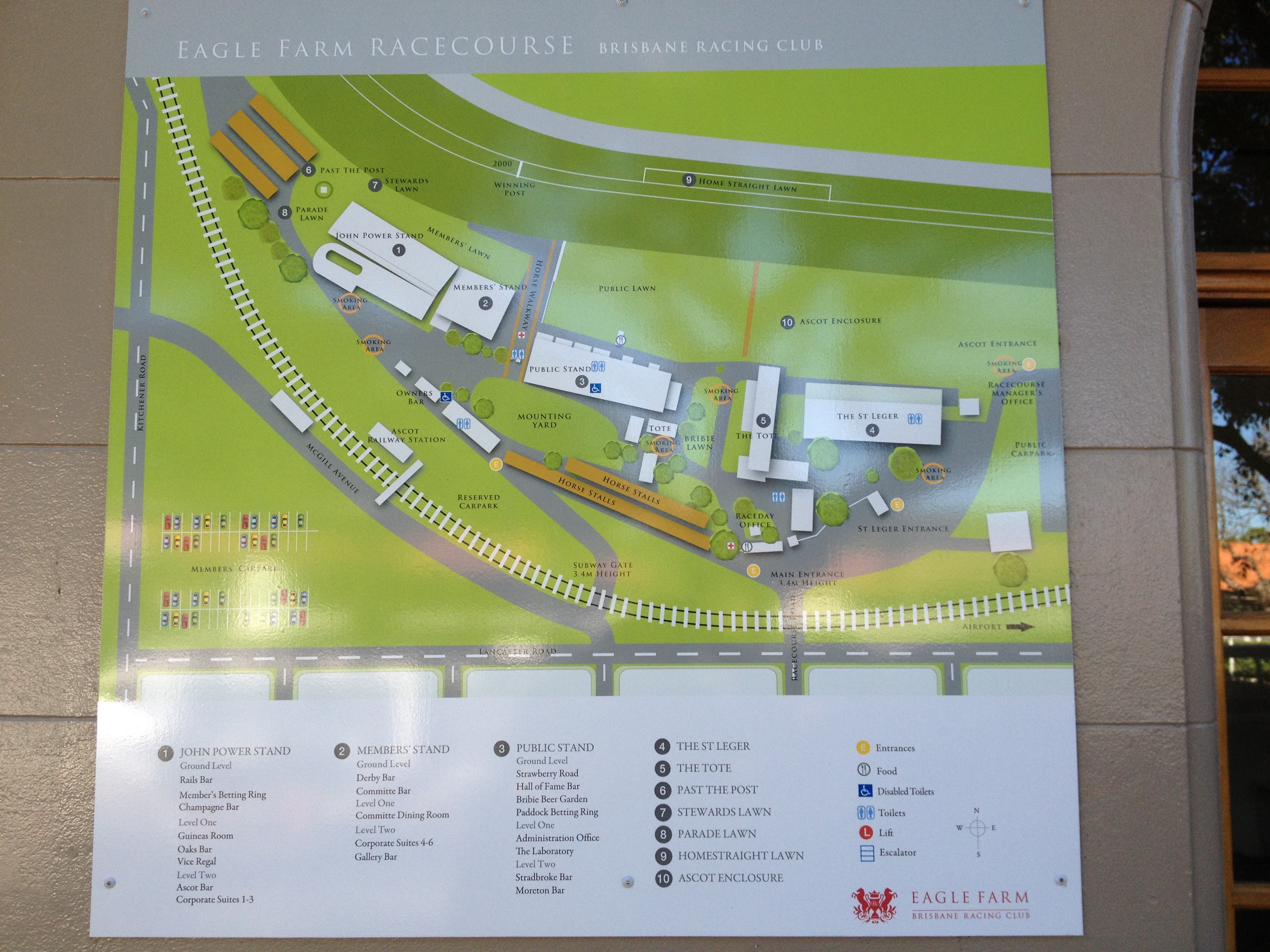 Map of Eagle Farm Racecource, May 2013